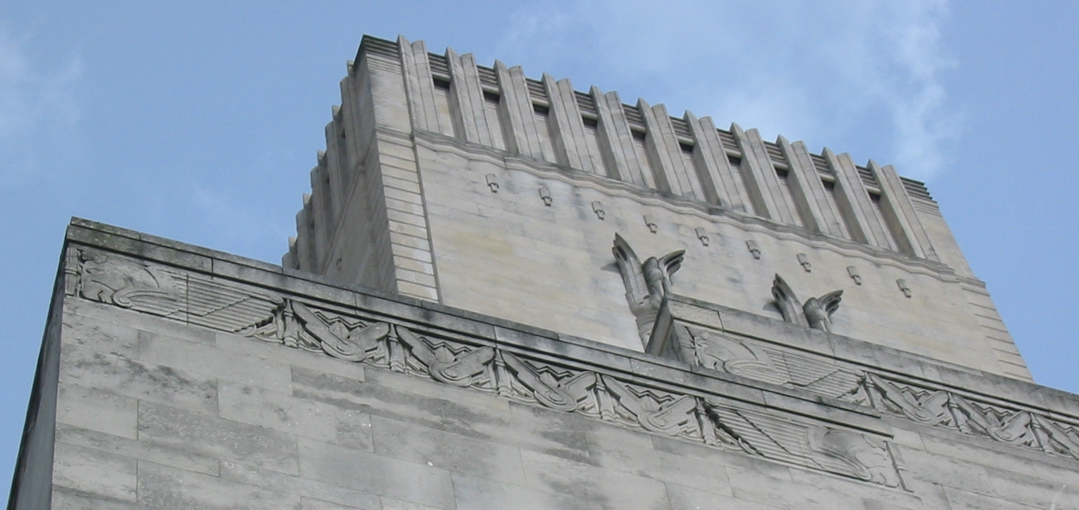 George's Dock Ventilation and Control Station, Pier Head, Liverpool, England. Offices and ventilation shaft for the Queensway Tunnel. Architect Herbert James Rowse, 1932.